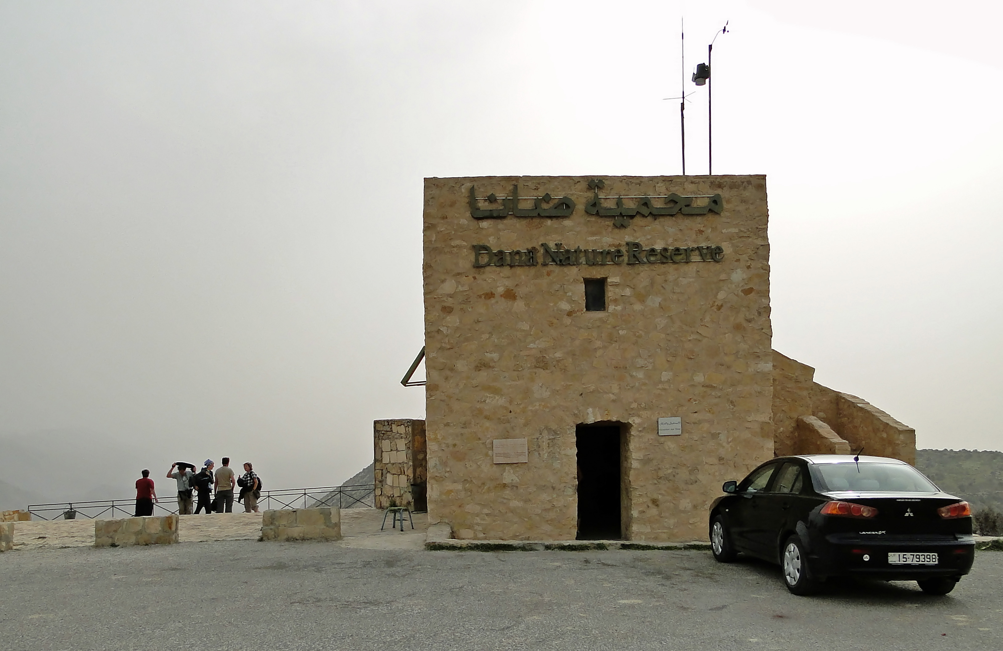 Entrance building of Dana Biosphere Reserve, Jordan